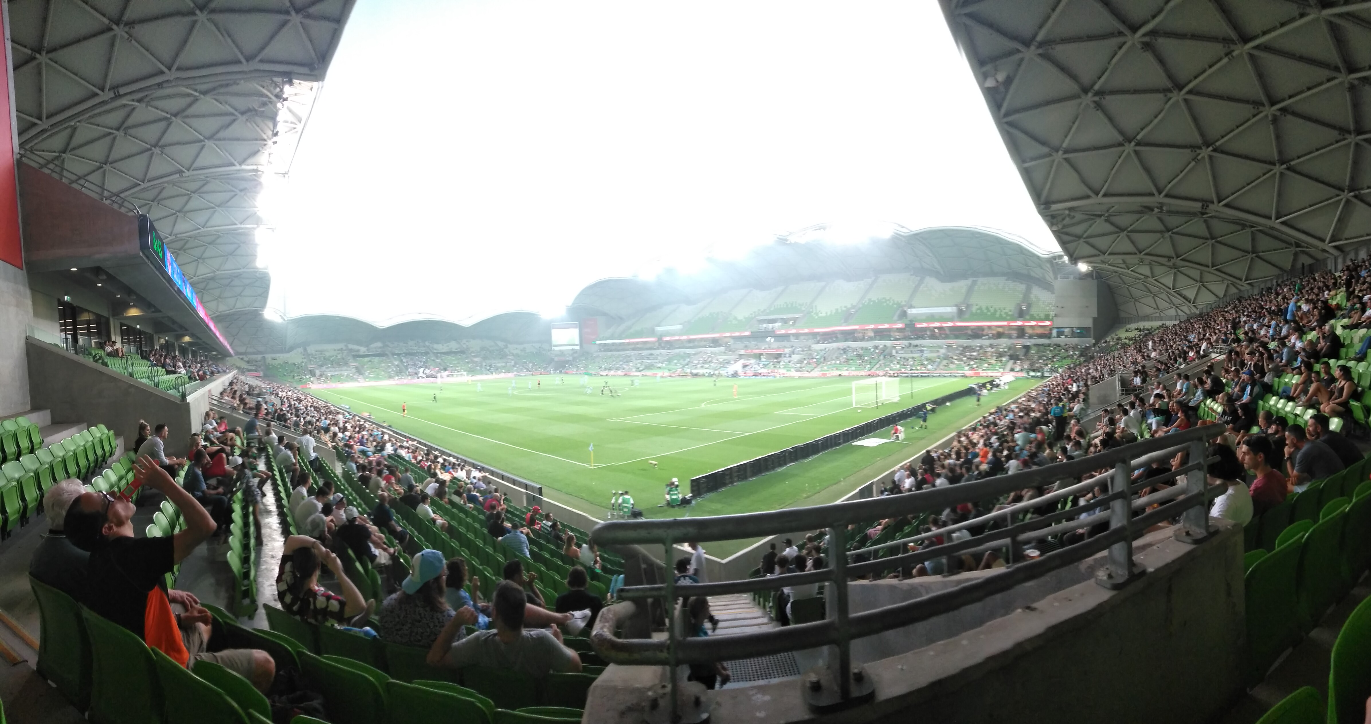 A panorama of AAMI Park with Melbourne City playing against Western United in 2020.